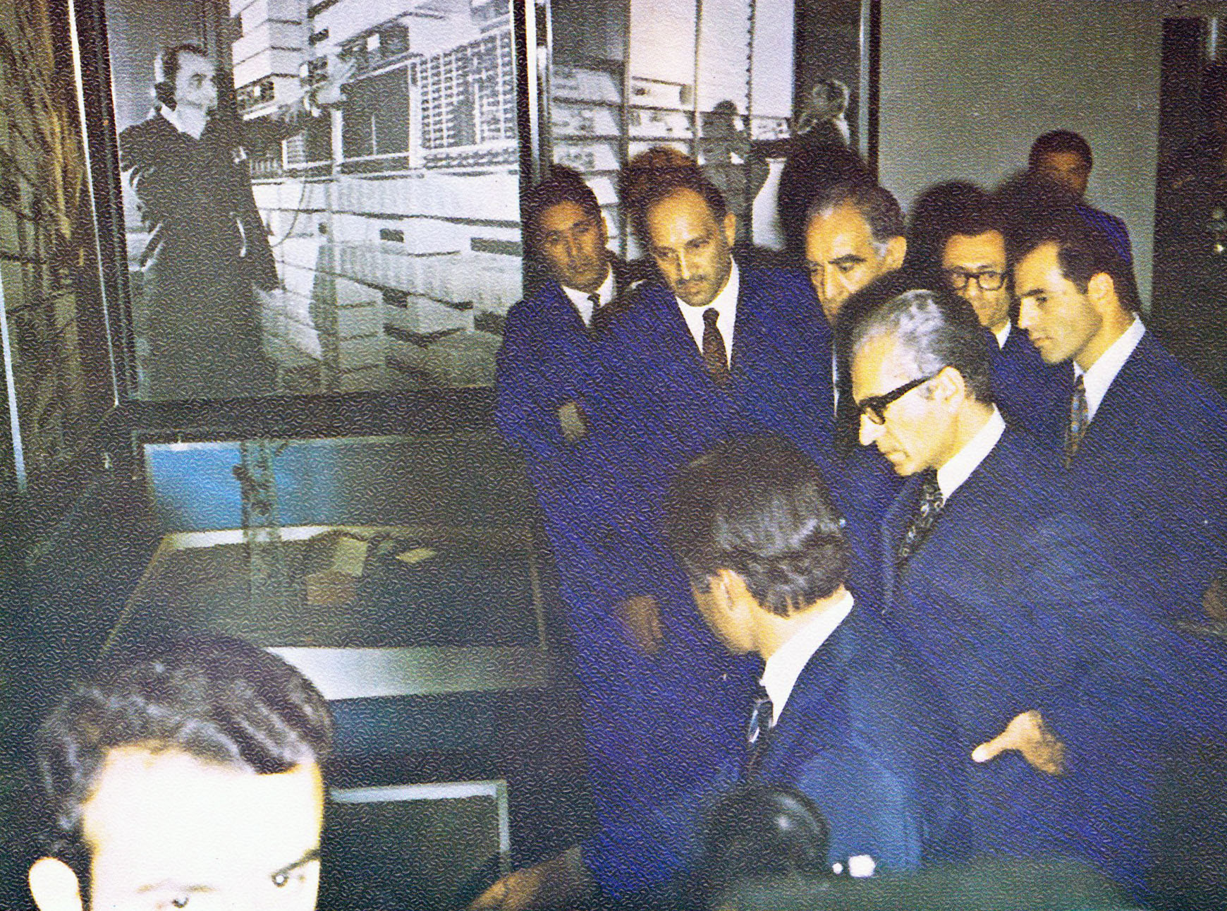 Shahanshah after opening the Micro-wave station, visits its different departments.